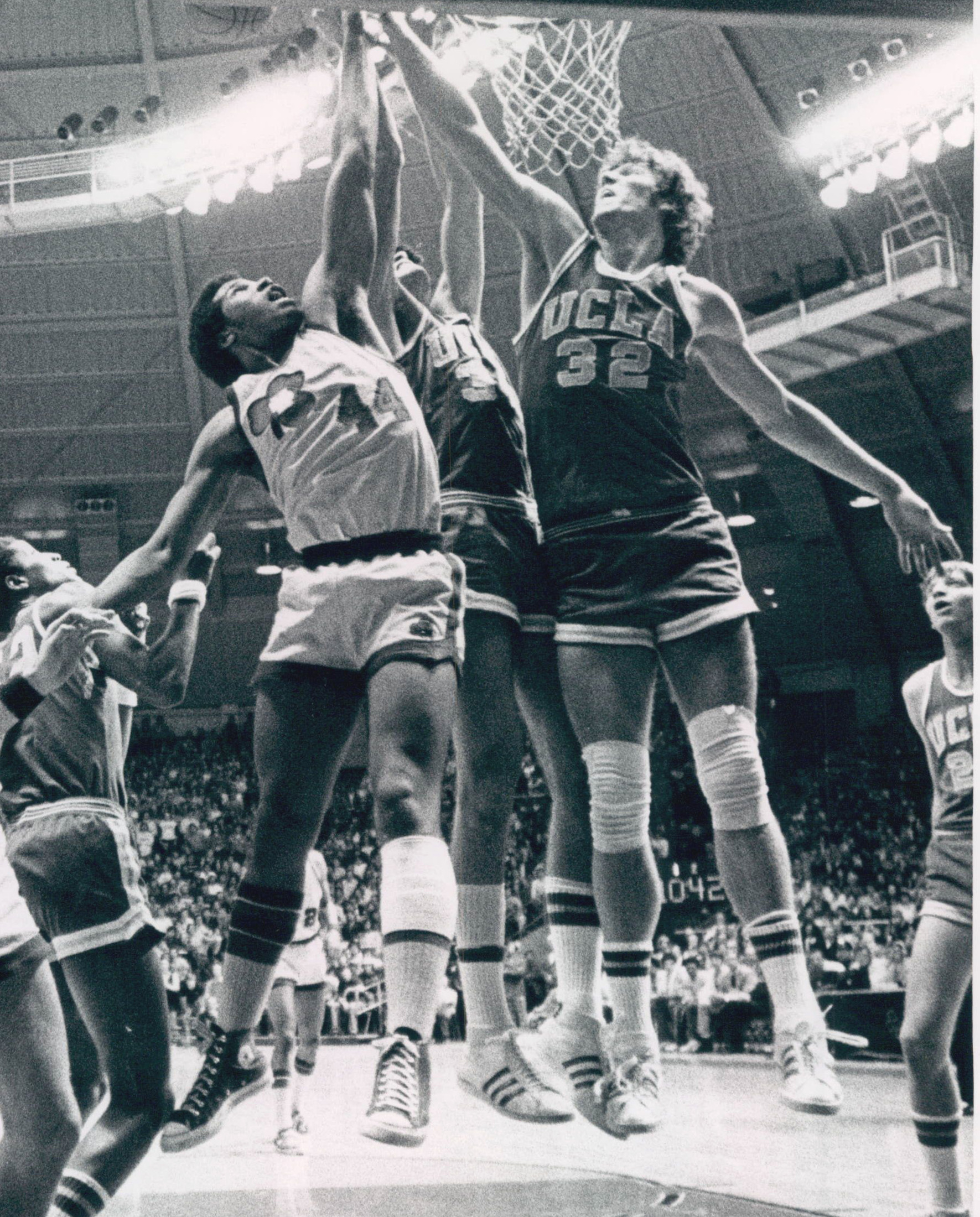 Bill Walton as a member of the UCLA Bruins